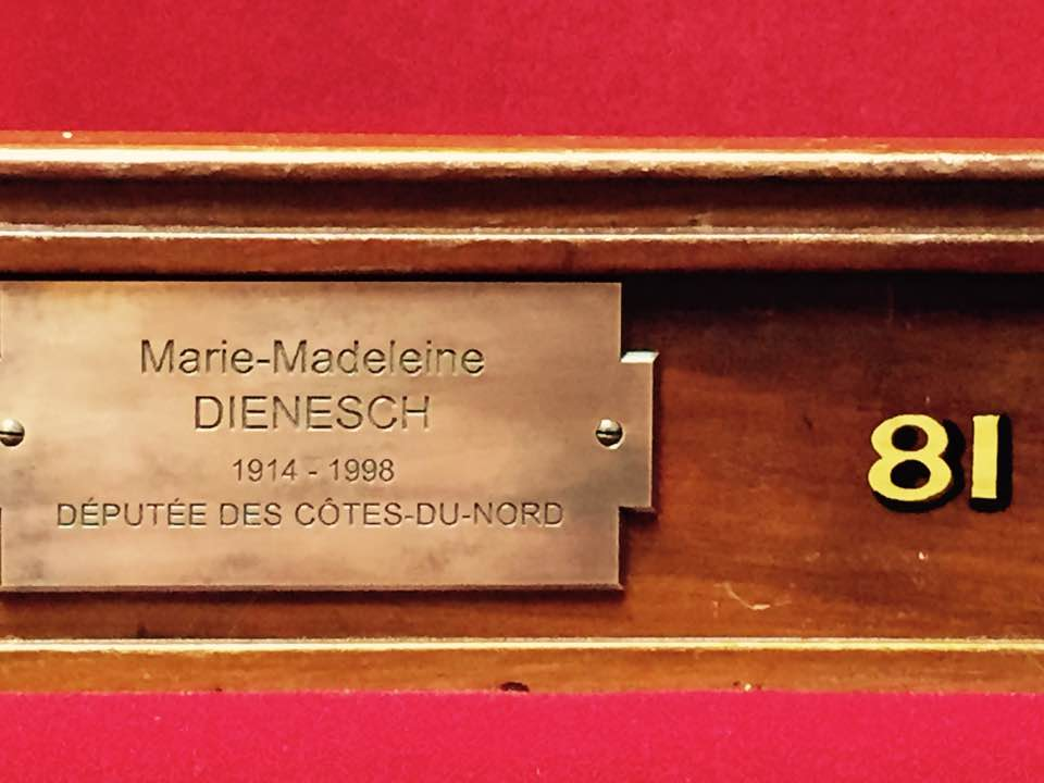 Historic plaque placed on the bench formerly used by Marie-Madeleine Dienesch in the Chamber of the National Assembly